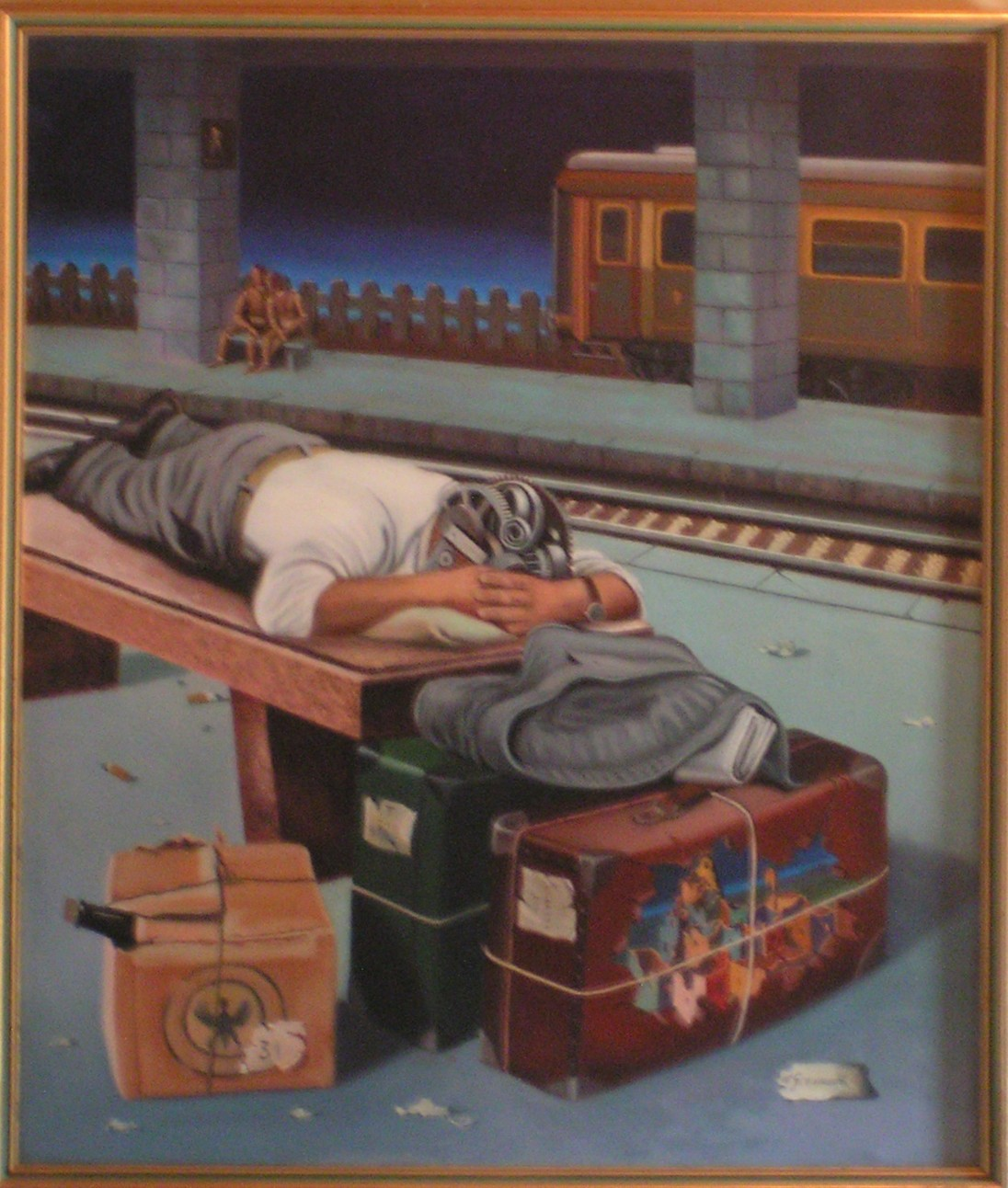 Work of the Italian painter William Girometti, title: "Unsolved problem", 1975, oil on canvas, cm. 60x70 - owned by his daughter.